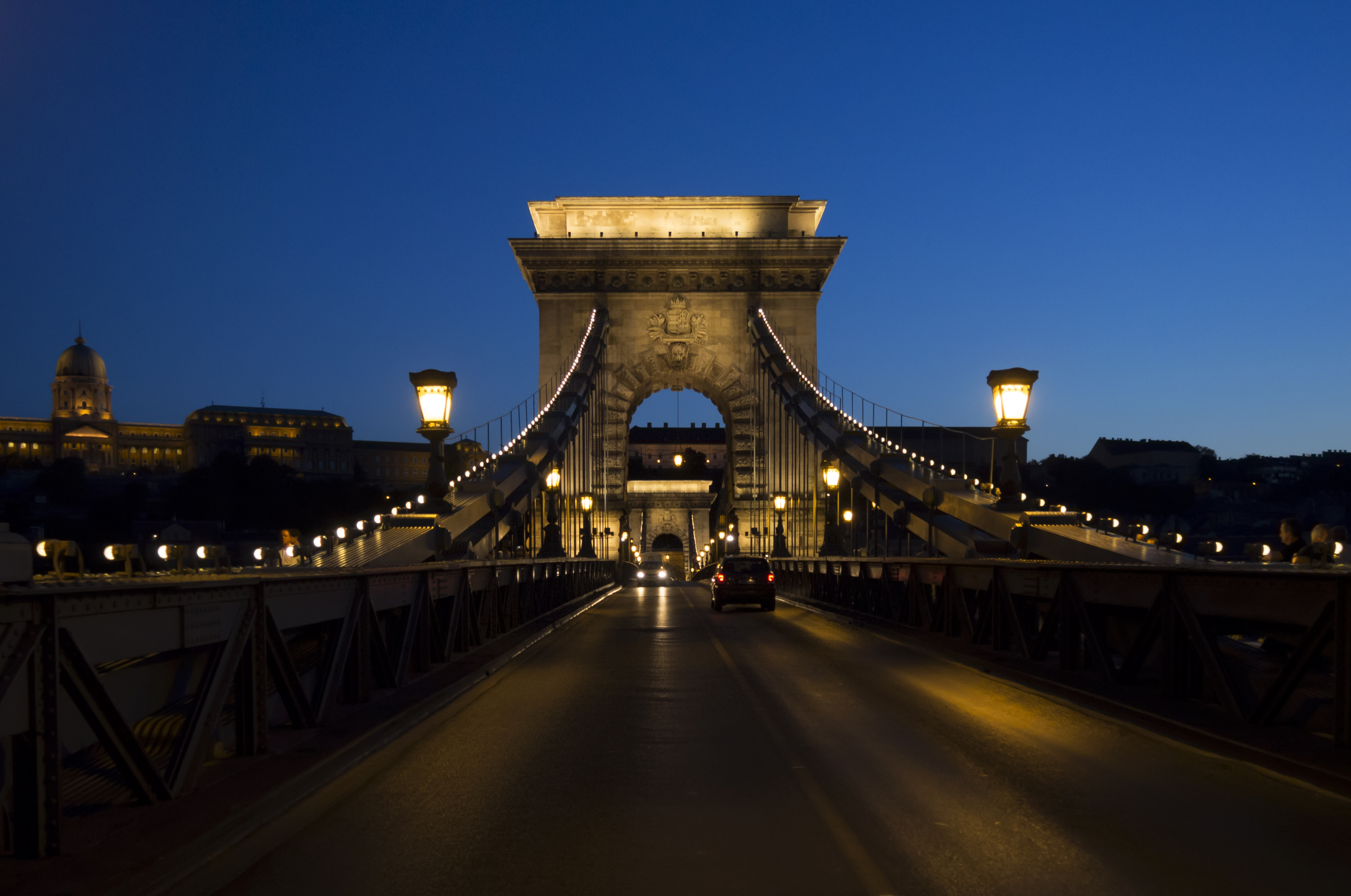 Night view of Chain bridge in Budapest. Српски (ћирилица): Ланчани мост у Будимпешти.